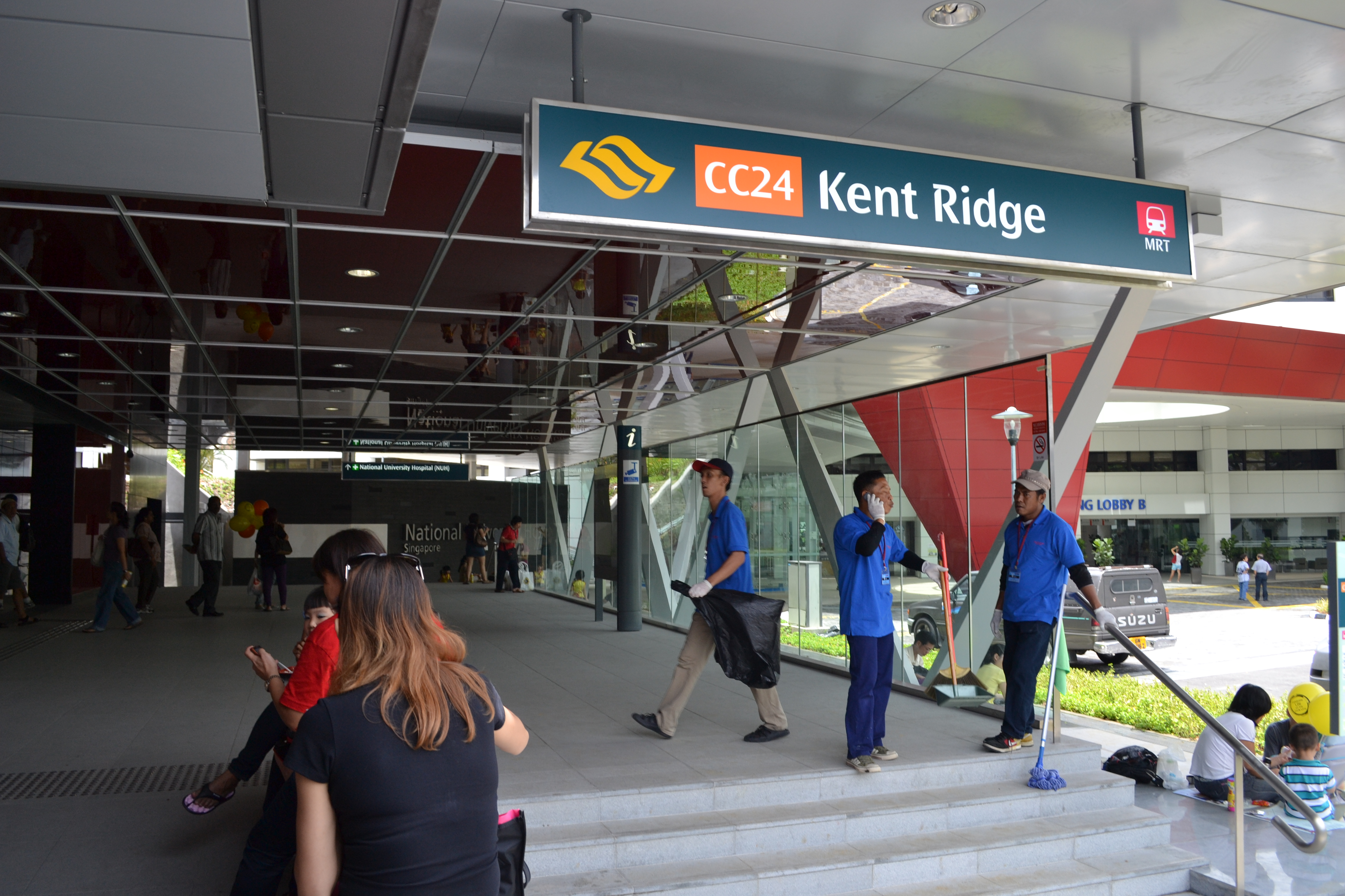 Kent Ridge